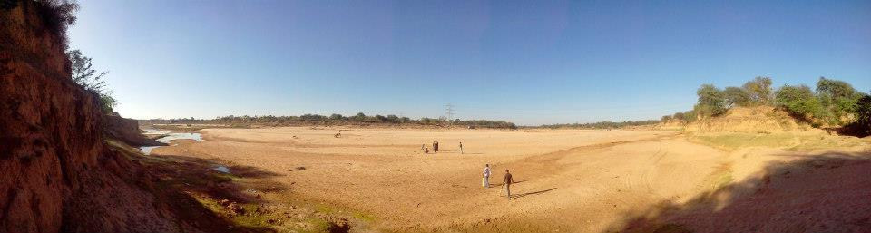 Panorma view of riverbank of Vatrak at Sarsavaniગુજરાતી: વાત્રક નદીના કાન્થે - પેનોરમા દૃશ્ય-સરસવણી